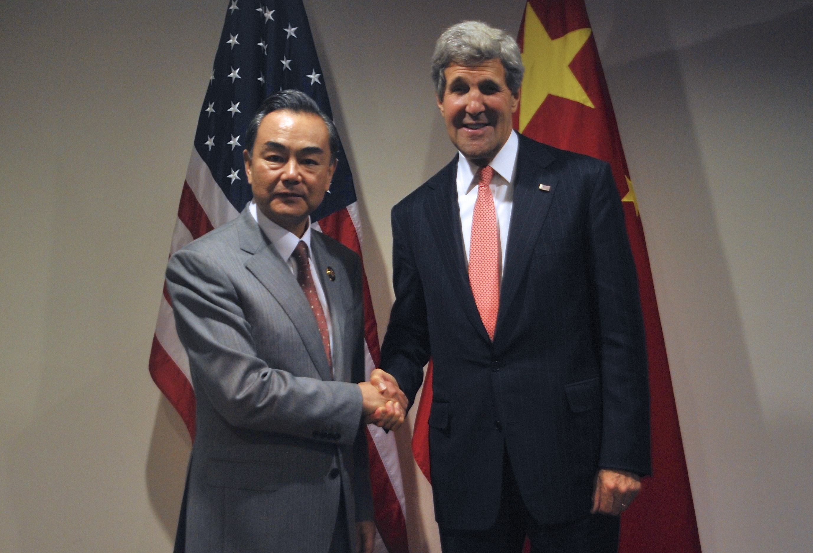 U.S. Secretary of State John Kerry shakes hands with Chinese Wang Yi before a bilateral discussion at the ASEAN ministeral meeting in Brunei on July 1, 2013. [Department of State Photo/Public Domain]